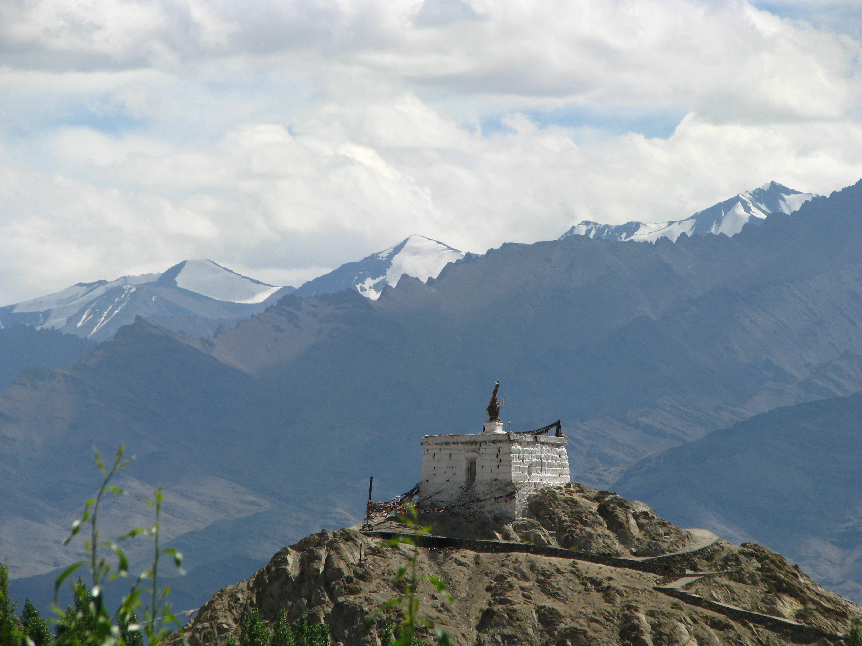 A small gompa sits atop a small hill south of main Leh looking lonely in front of the vast near-6000m mountains behind.